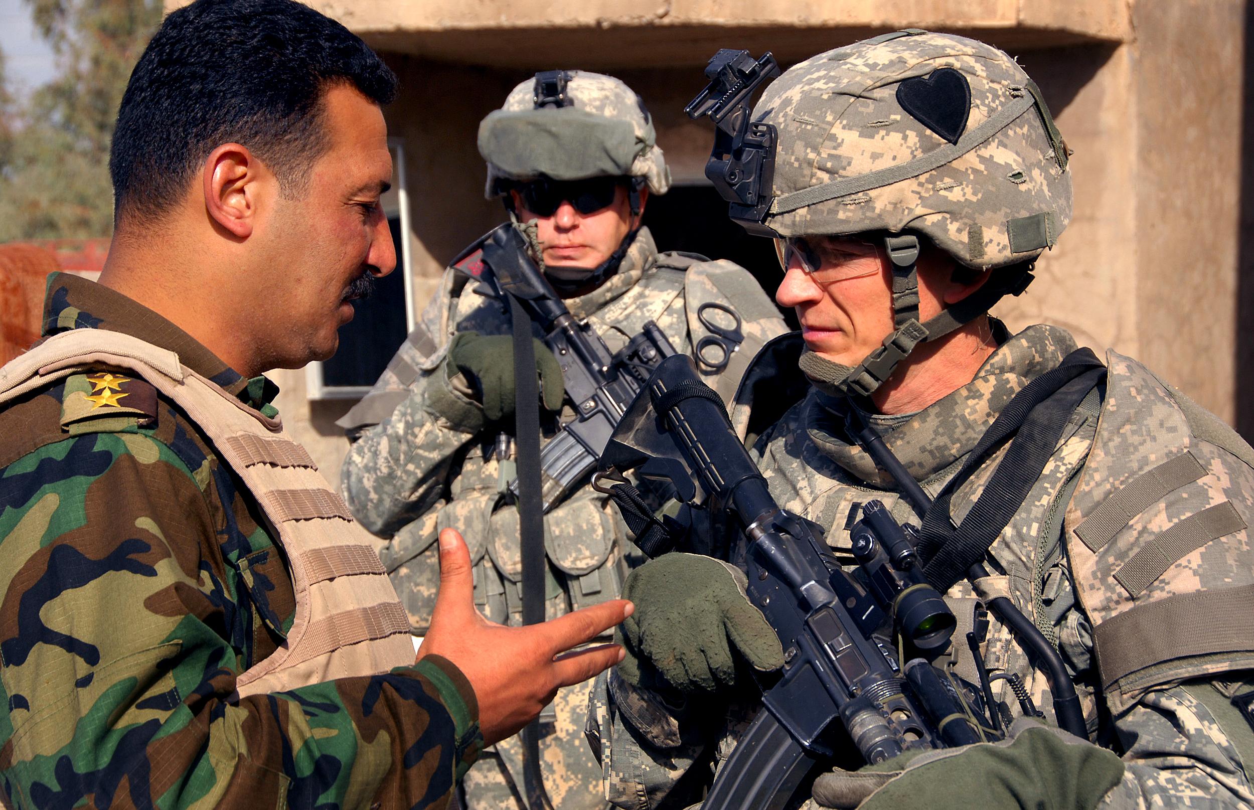 U.S. Army Capt. Thomas Melton, commander,101st Airborne Division, 2nd Brigade Combat Team, 75th Cavalry Regiment, 1st Squadron's Alpha Troop, discusses the day's mission with his counterpart from the 4th Battalion, 1st Brigade, 6th Iraqi Army Division, in Bakariya, Iraq, Dec. 14, 2007. U.S. Army photo by Spc. Charles Gill